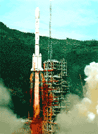 Chinese launch vehicle Long March 3B during launch